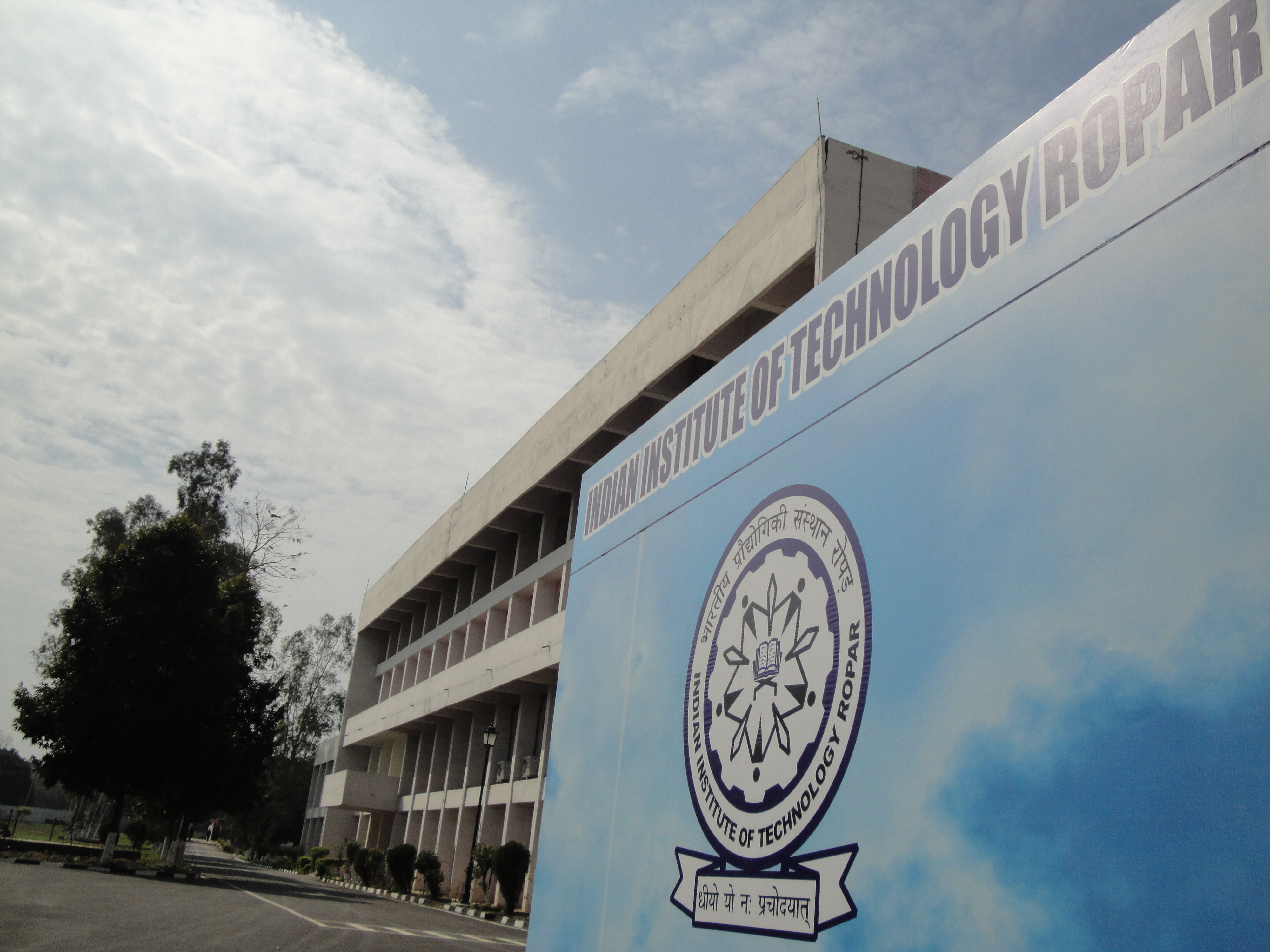 The Main Building of the Transit Campus of IIT Ropar situated in Rupnagar